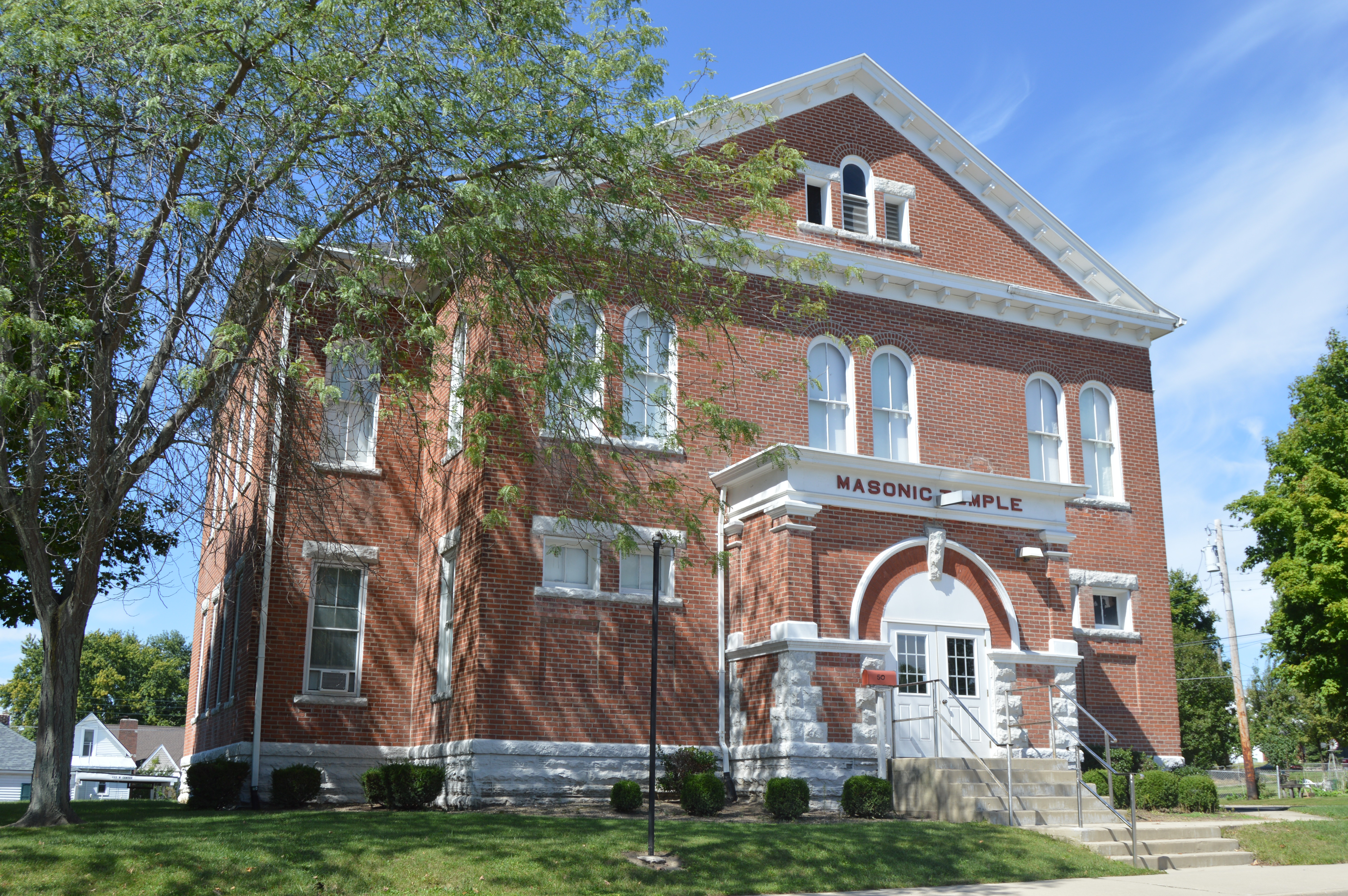 Front and southern side of the Farmersville Masonic Temple, located at the intersection of Center and Jackson Streets in Farmersville, Ohio, United States.